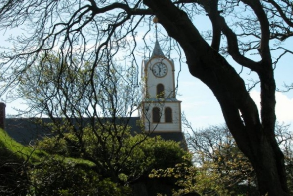 Tórshavn Dom (Faroe Islands)